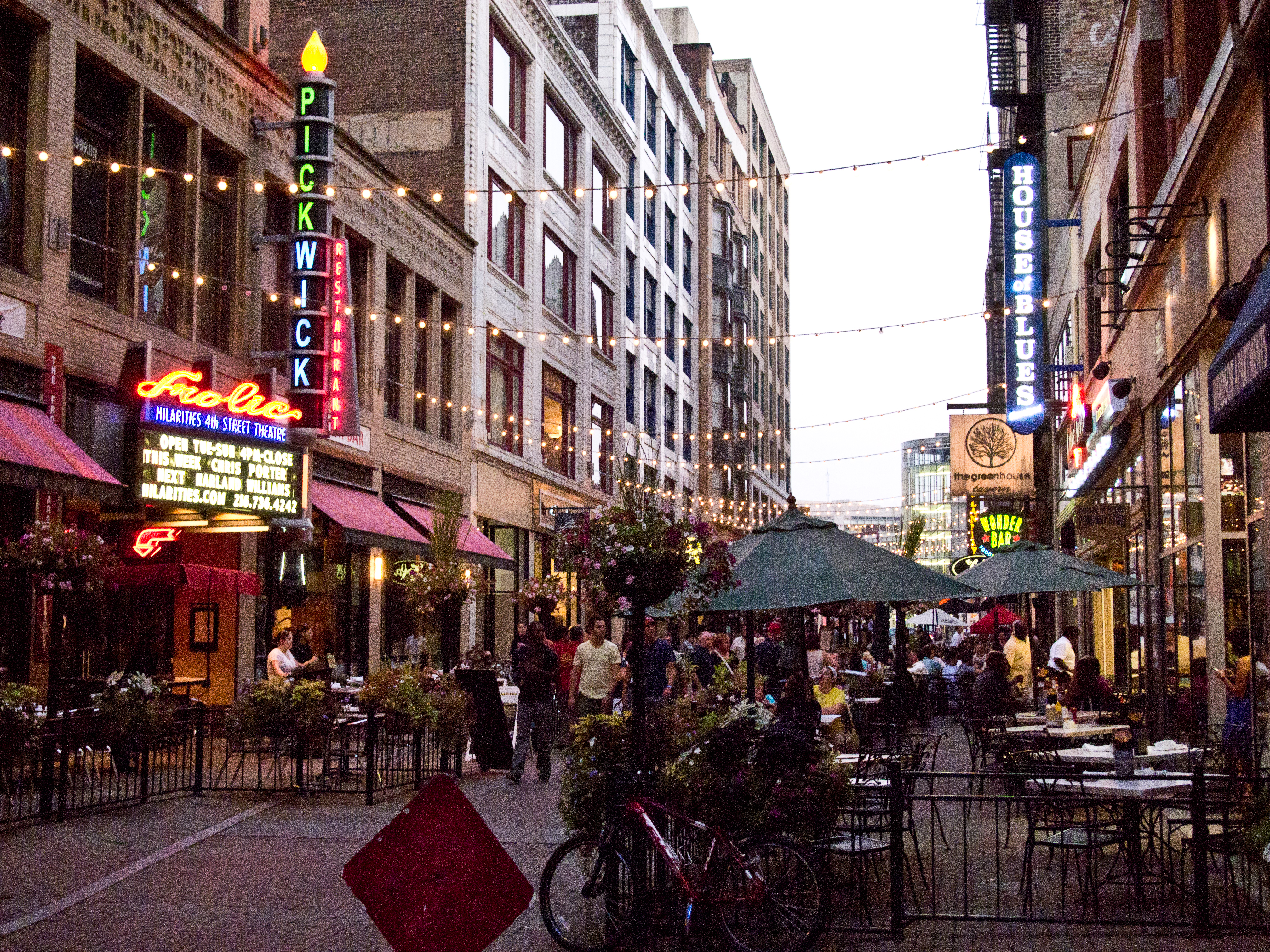 Downtown Cleveland's East 4th Street